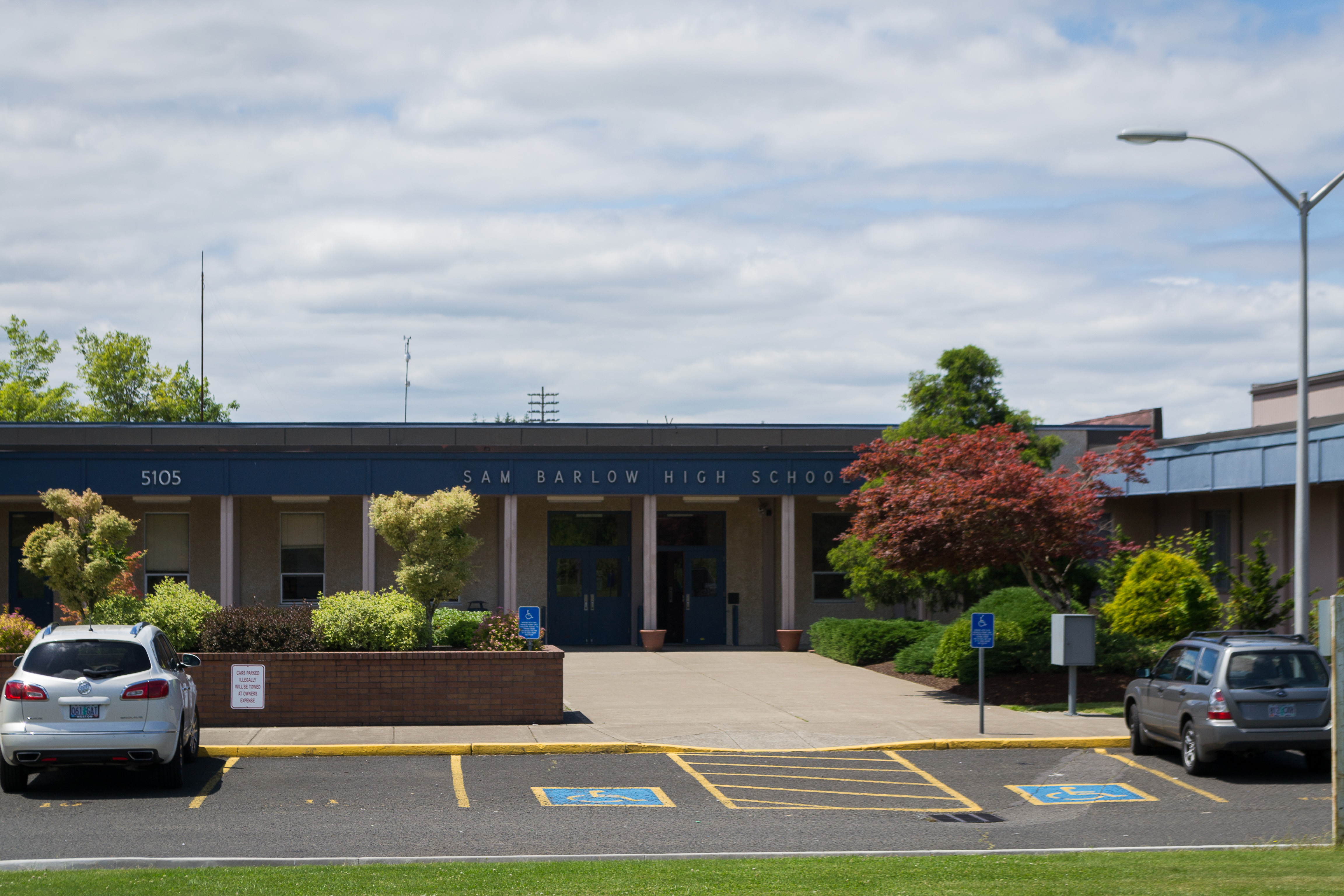 Sam Barlow High School in Gresham, Oregon